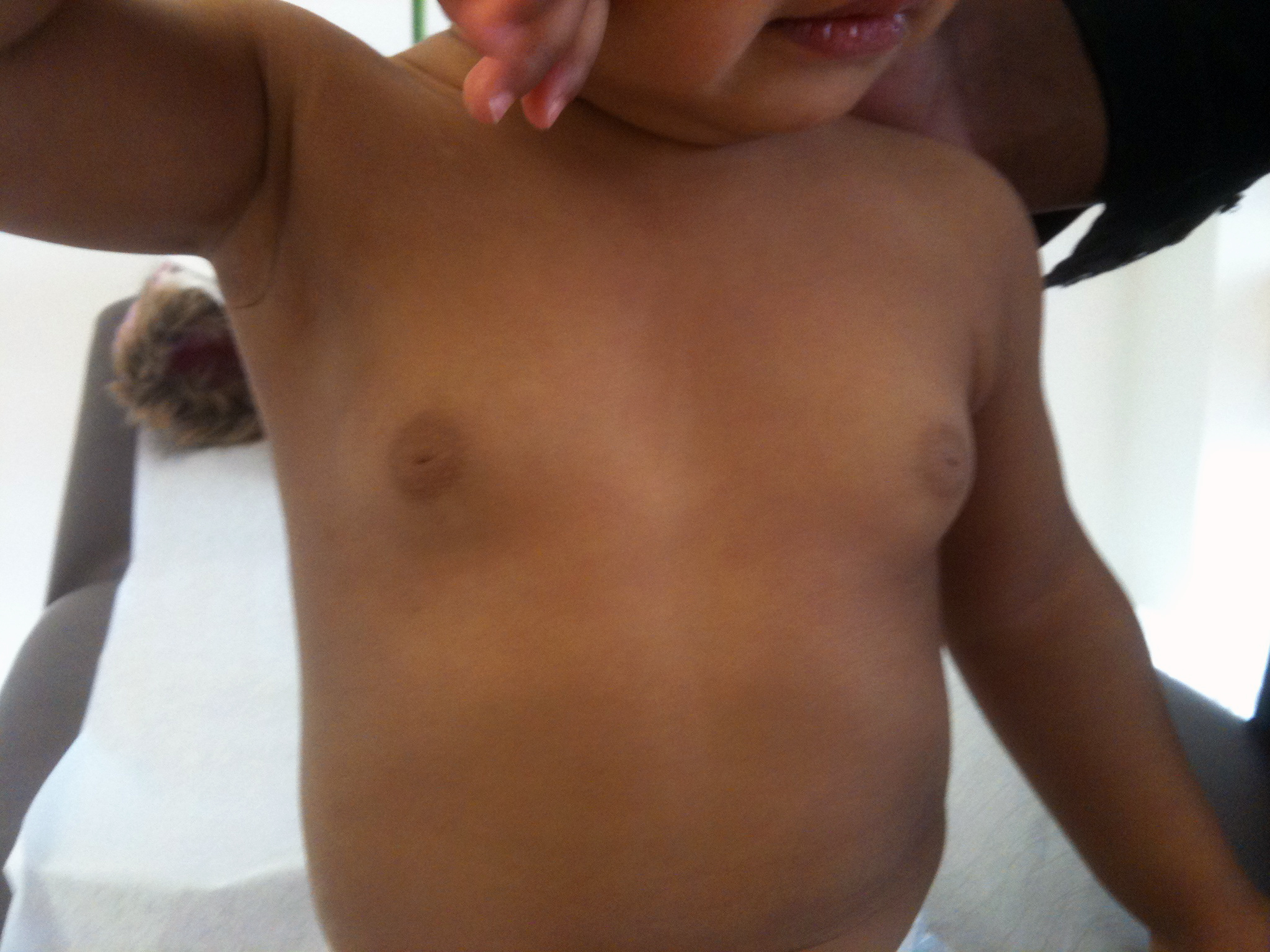 Precocious thelarche (development of mammary glands) in a 12 months old girl.